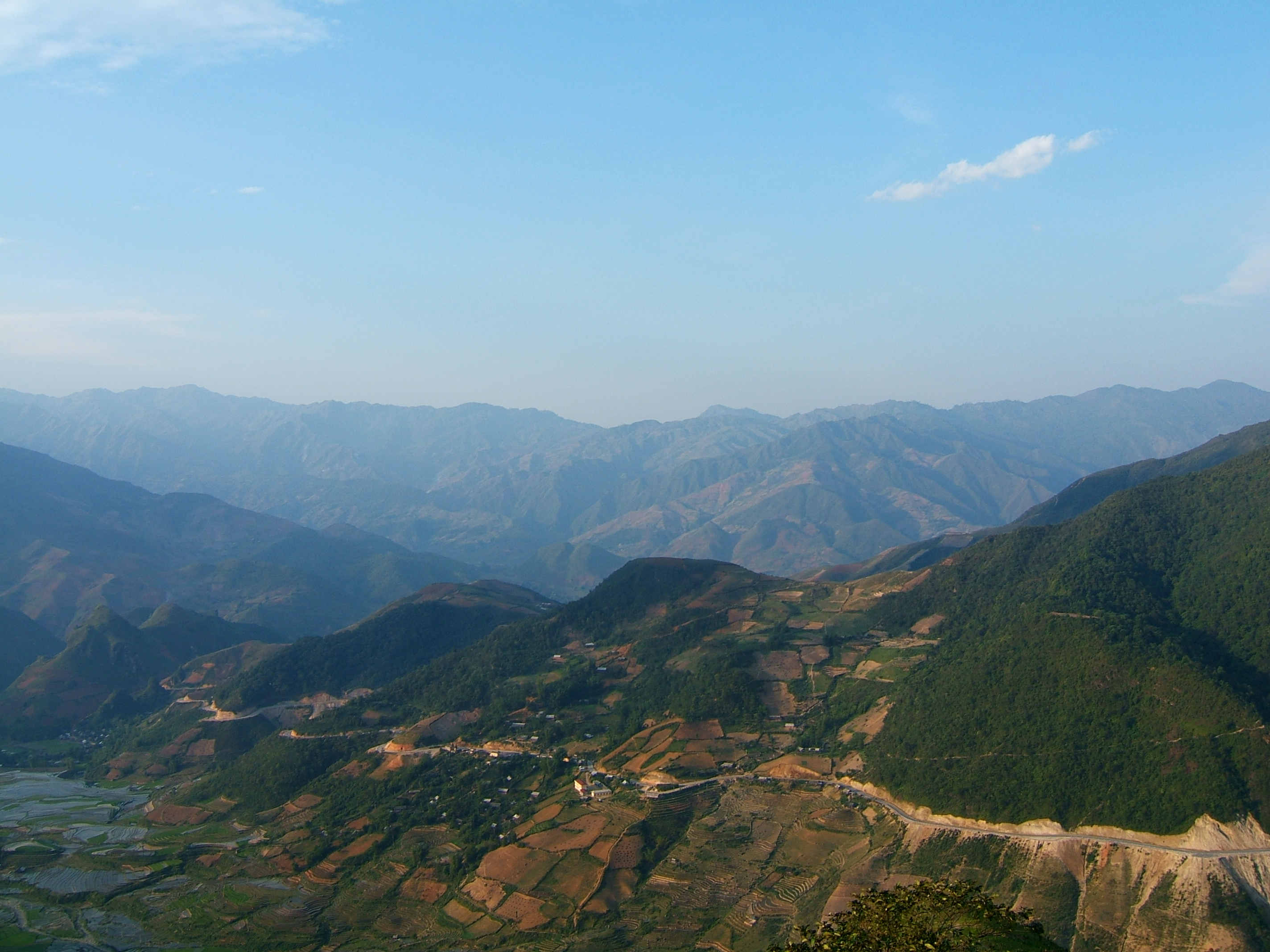 Khau Pha Pass in national highway No.32 in Mu Cang Chai District, Yen Bai Province, Vietnam